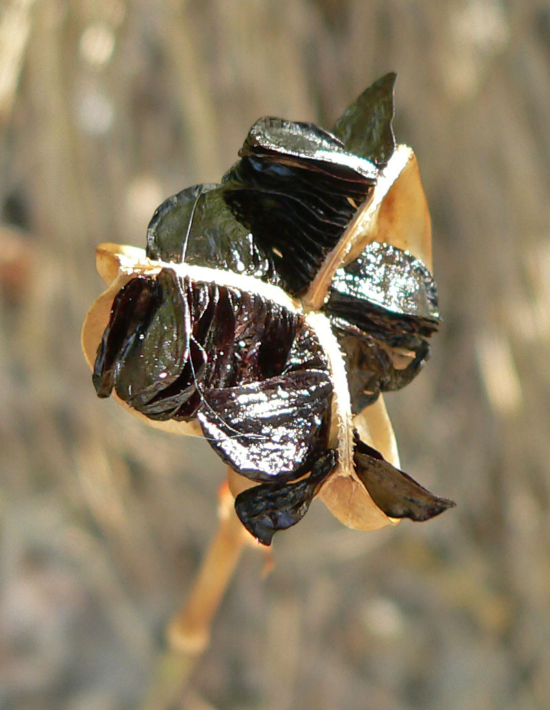 Habranthus tubispathus at the University of California Botanical Garden, Berkeley, California